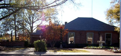 This image of Mountain Brook, Alabama's City Hall was taken November 2006. I am the creator and release it into the public domain.